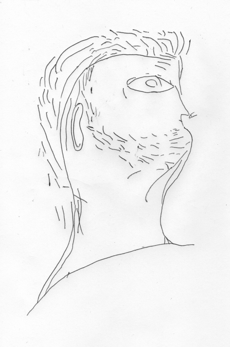 Description: Unknown artist, Graffiti portrait of Nero, c. 1st century. Shown as a graffito copy, from P. Castren and H. Lilius, Graffiti del Palatino II, Domus Tiberiana (Helsinki, 1970), 121, no. 3. Graffito techniche copy of ancient graffiti depicting Nero. Original author died over 1800 years ago, thus public domain. Graffito copy is not a significant alteration of original work, thus still public domain.